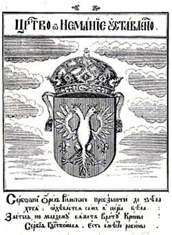 Coat of arms of the House of Nemanjić from "Stemmatographia" by Hristofor Zhefarovich. published in 1741